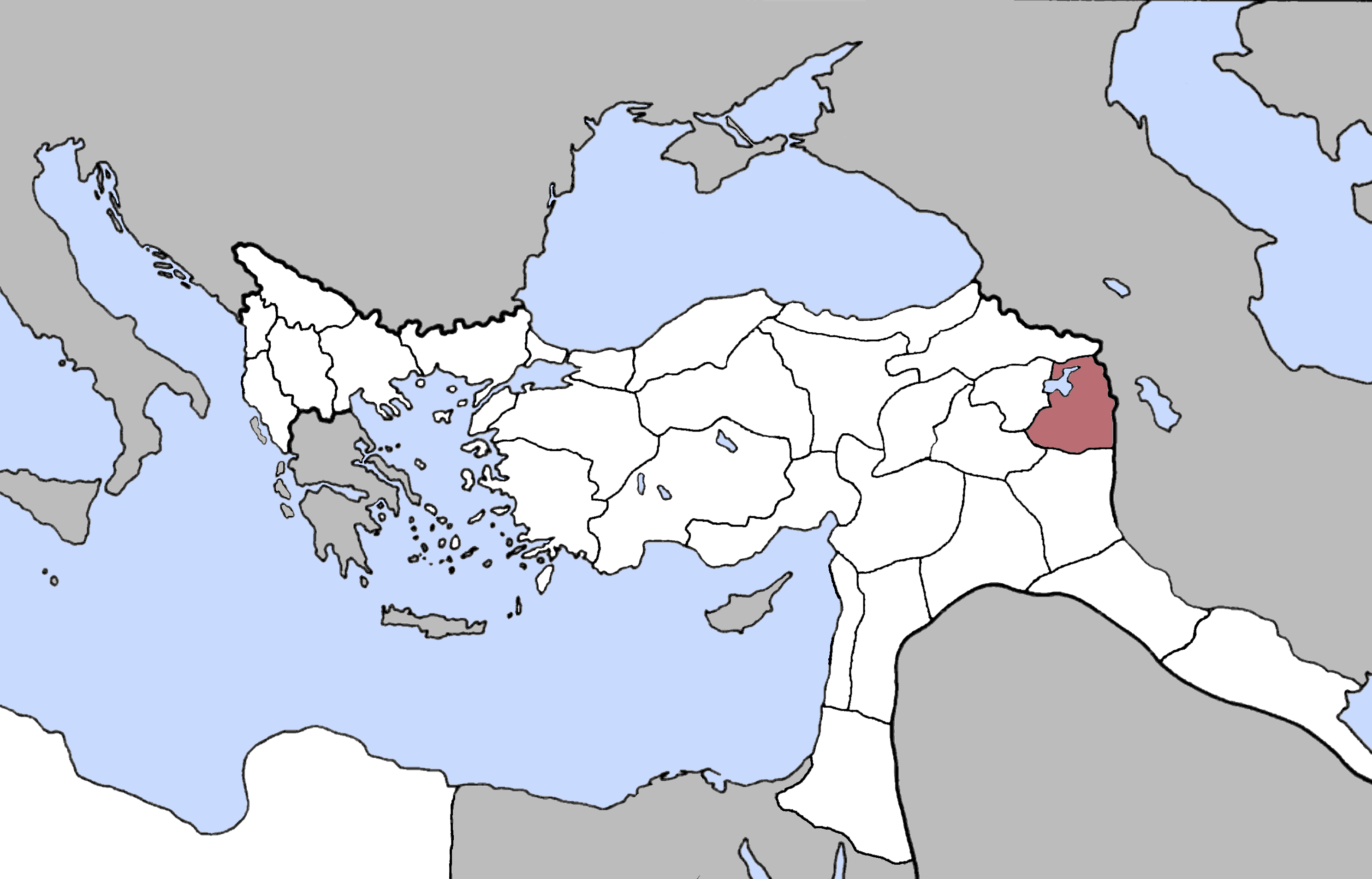 XY Vilayet, Ottoman Empire (1900). Source: An Economic and Social History of the Ottoman Empire, Volume 2 at Google Books By Suraiya Faroqhi, Bruce McGowan, Donald Quataert, Sevket Pamuk